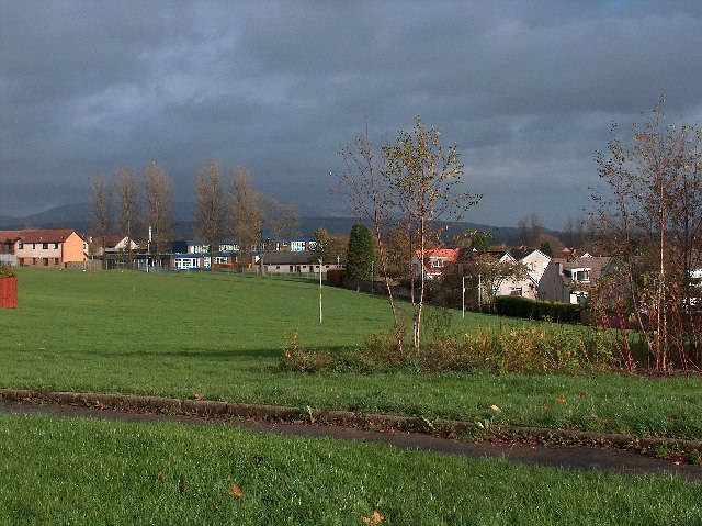 Baljaffray Primary School, South Baljaffray, Bearsden, East Dunbartonshire, Scotland. Primary school in South Baljaffray Housing estate, Bearsden, East Dunbartonshire, Campsie Fells in the distance. Early afternoon.